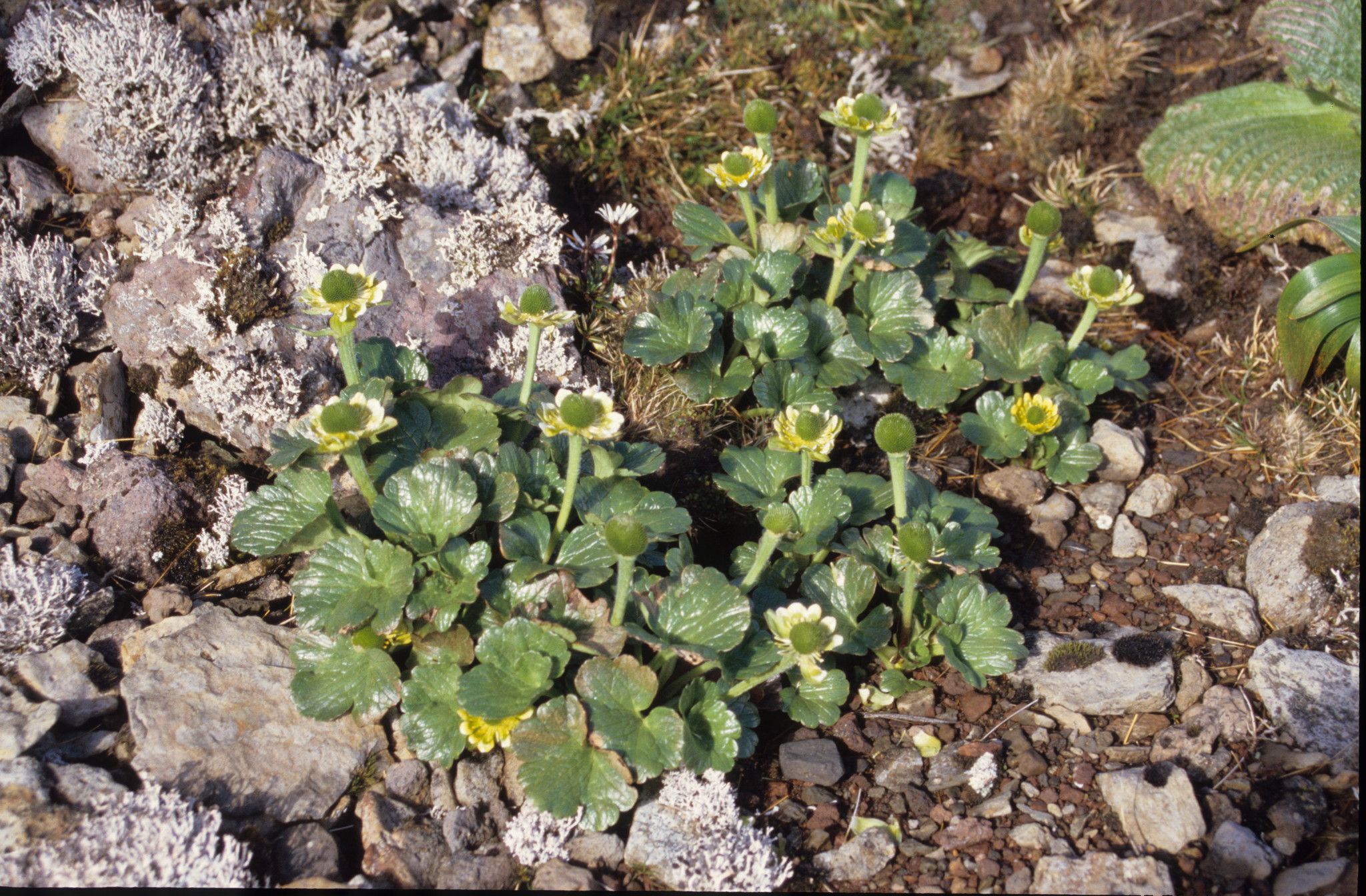 The buttercup species Ranunculus pinguis, photographed by Colin Meurk, on 23 December 1998, at Mt. Honey, Campbell Island, New Zealand